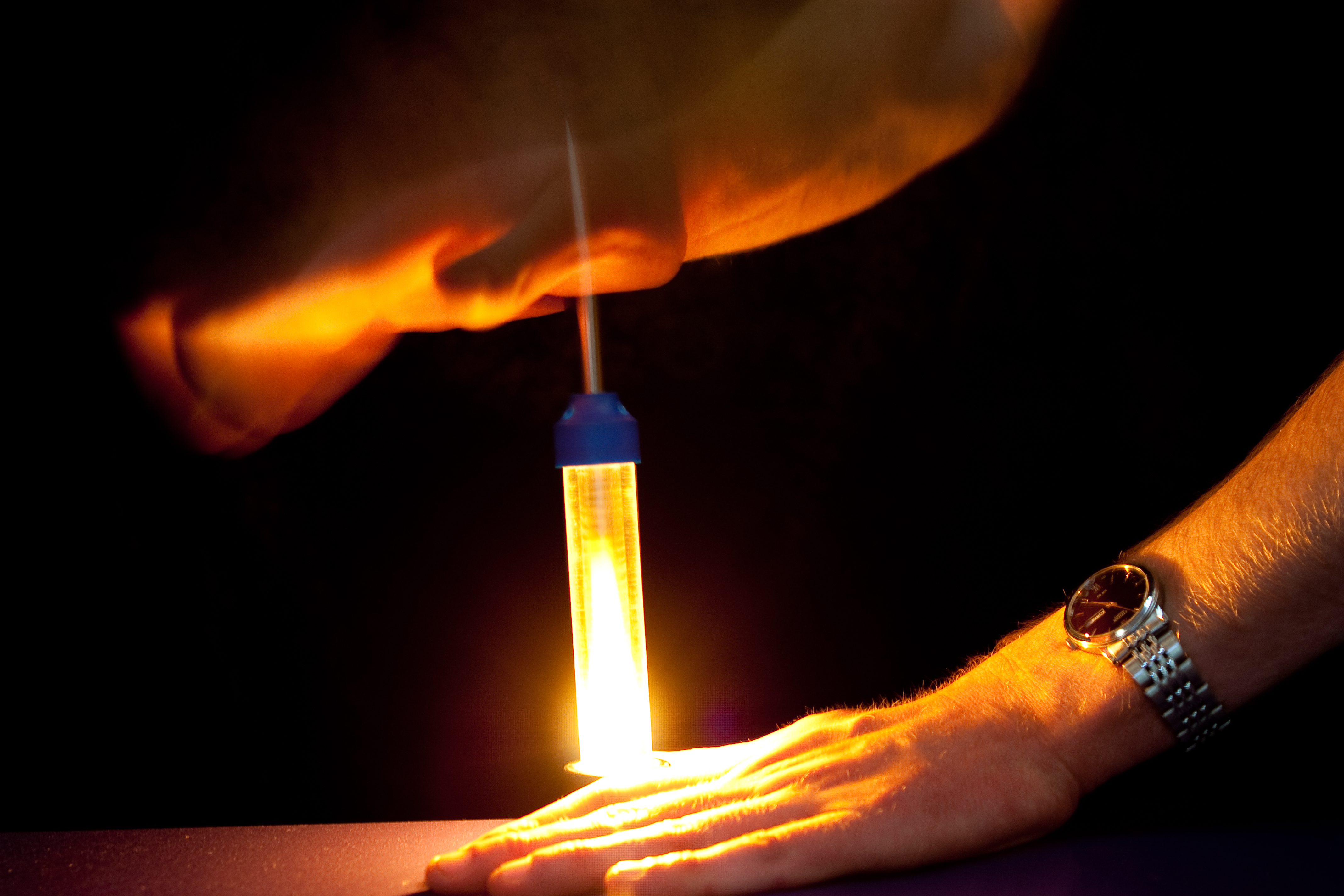 A fire piston. A tiny piece of flash cotton, within a clear cylinder, is ignited by the heat of sudden (adiabatic) compression.